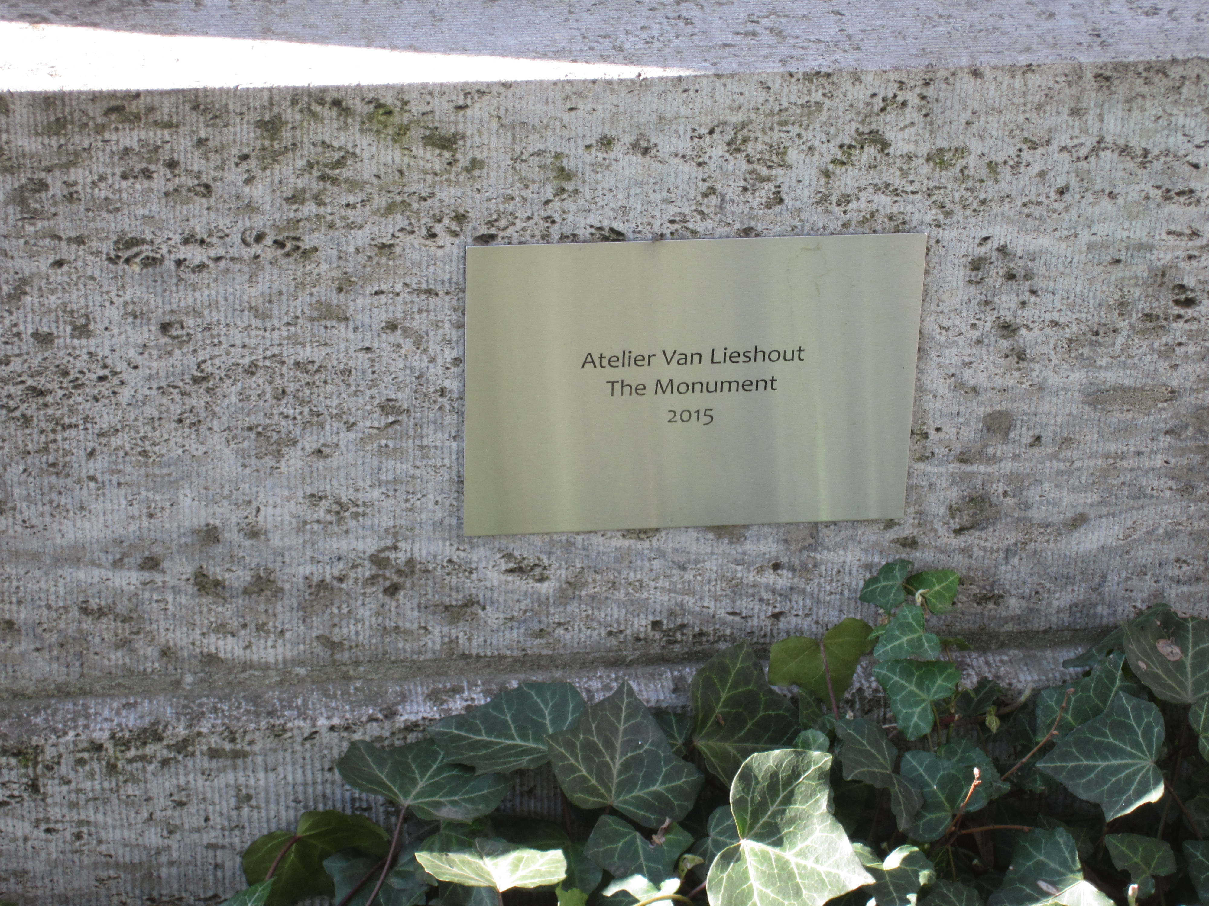 Berlin, Germany (April 2016)